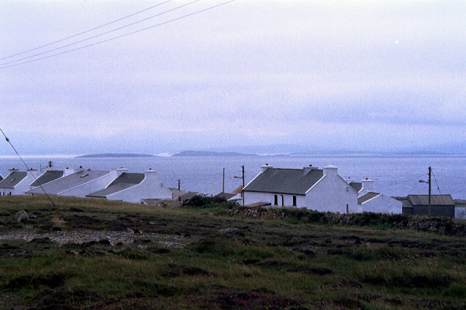 Tory Island, County Donegal, Ireland Houses of East Town facing Inishbeg, Inishdooey, Inishbofin and the mainland